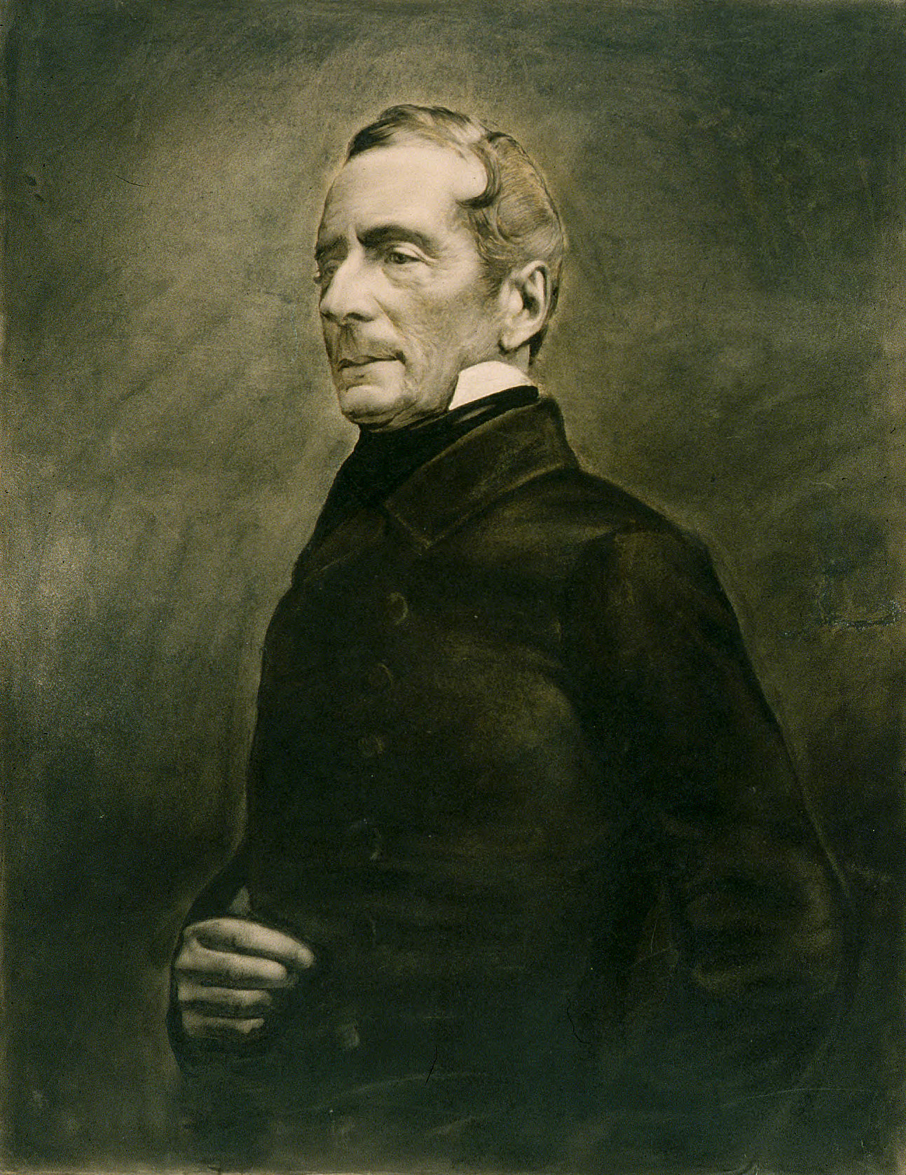 Subject: Alphonse de Lamartine Document: 1856 albumen print (?), applied color 57.0 x 45.0 cm. Gift of Eastman Kodak Company: ex-collection Gabriel Cromer GEH NEG: 34146 (83:0659:0001) Sobieszek, Robert A. --Masterpieces of Photography from the George Eastman House Collections.-- New York: Abbeville Press, 1985. p. 95.// EXHIBITION HISTORY: "Era of the French Calotype", US, NY, Rochester, GEH - Brackett Clark Gallery, September 17 -November 28, 1982.// "Images of Excellence", US, NY, Rochester, GEH - Brackett Clark Gallery, January 1 - April 26, 1987. (Traveled).// INSCRIPTION: mat verso-(handwritten notations in ink by Gabriel Cromer) "First enlargement of portrait in 1861 (see "Moniteur de la Photographie" 1861 pages 18, etc.) Solar enlarger by Liebert...1864-(see 1st ed. of Photo. en Amerique) One of the first enlargements by Nadar from his famous negative of Lamartine (1790-1869) taken about...Enlargement made about 1865? Same (indecipherable) as my grand mother Cromer equally by Nadar...by Nadar see l'Illustration du 15 april 1933, page 436" (tranlated) Notes: Catalogued by R. Sobieszek/PB, 4/85.//